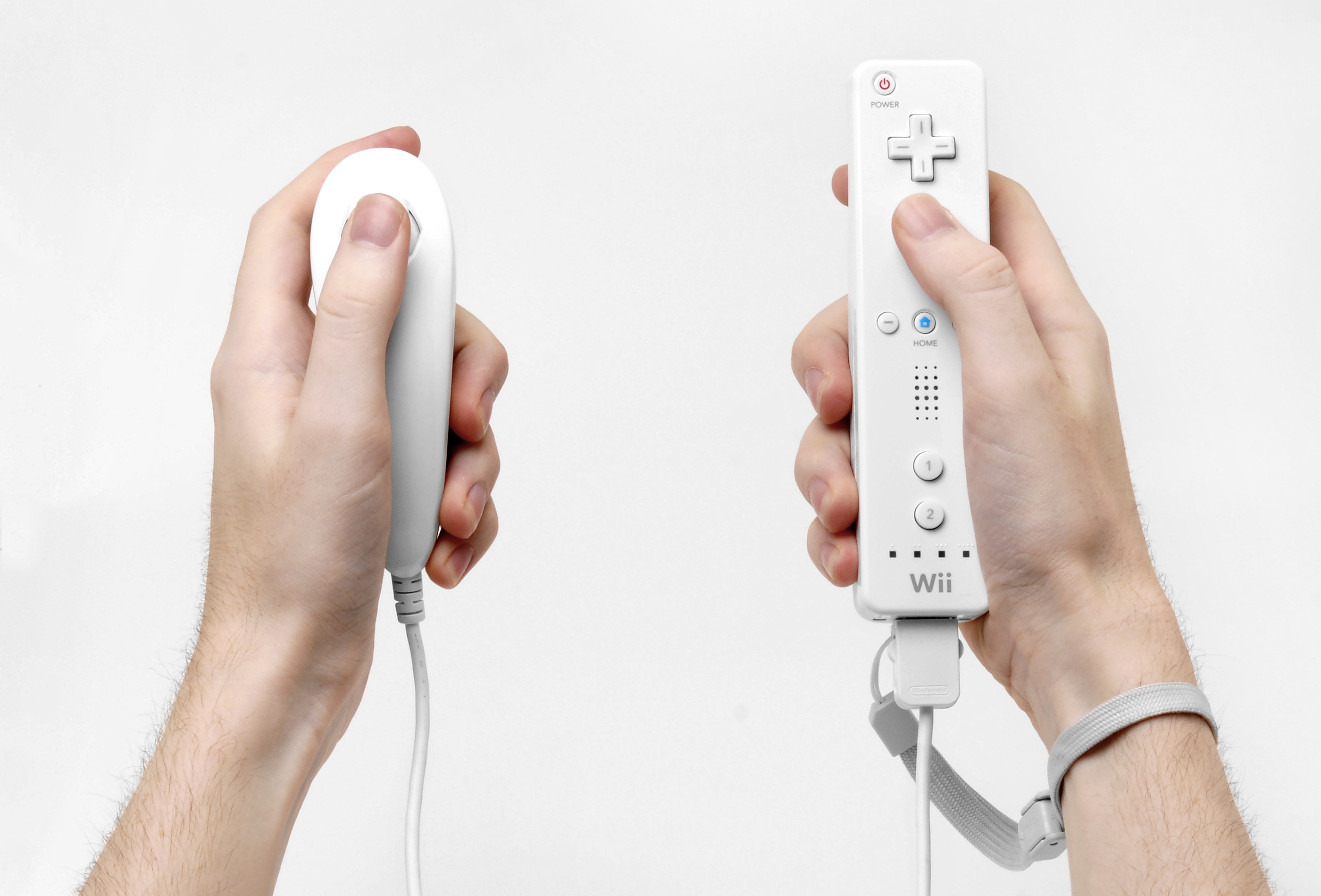 A Wii Remote and a Nunchuck attachment held in hands, as if playing a game. Shown with wrist strap attached. Shown against a grayish, non-whited background because taking pictures of the Wii Remote can be a huge pain.